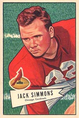 American football player Jack Simmons (American football) on a 1952 Bowman Large card.